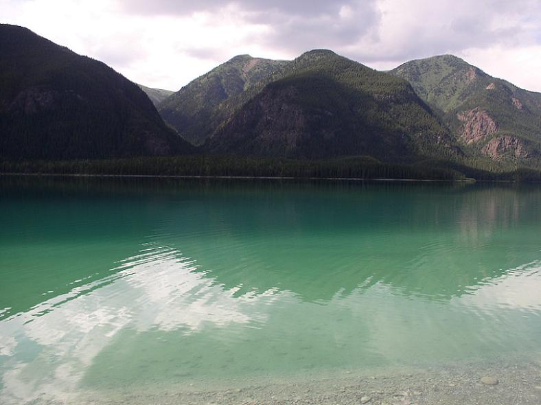 View on the muncho lake in July